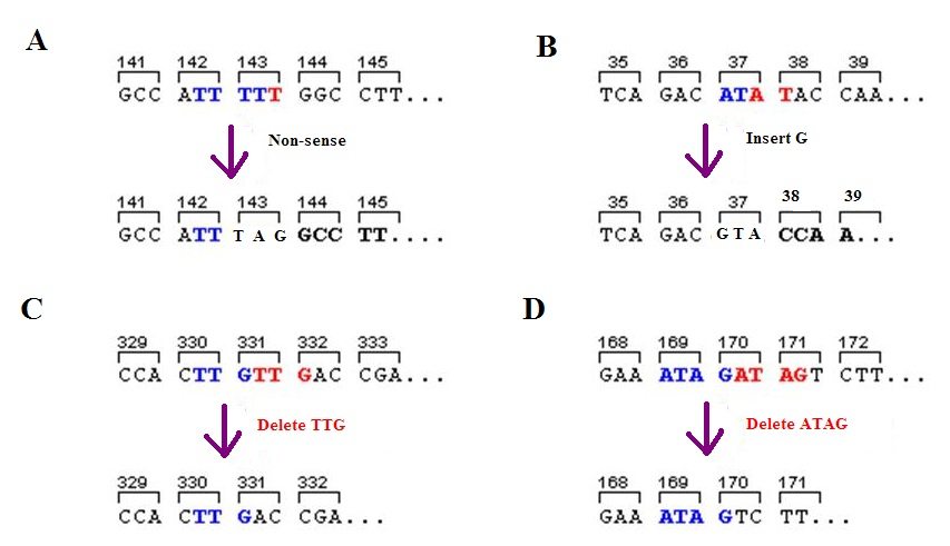 Differences between non-sense, insertion and deletions causing Frameshift mutation.